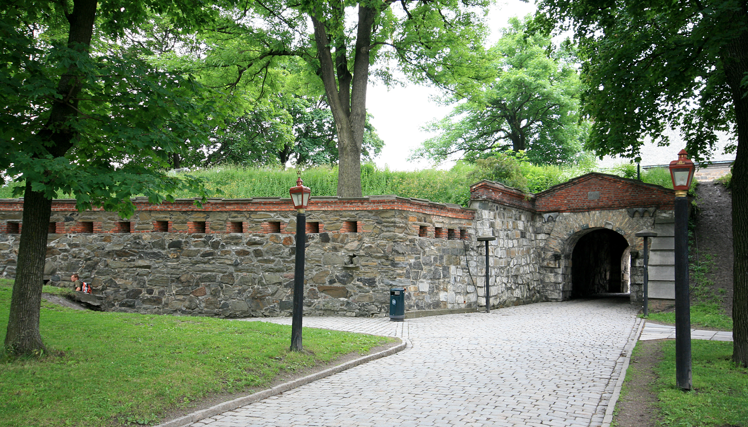 Casemate at The King's Bastion, Akershus Castle, Oslo. Built around mid-18th C.